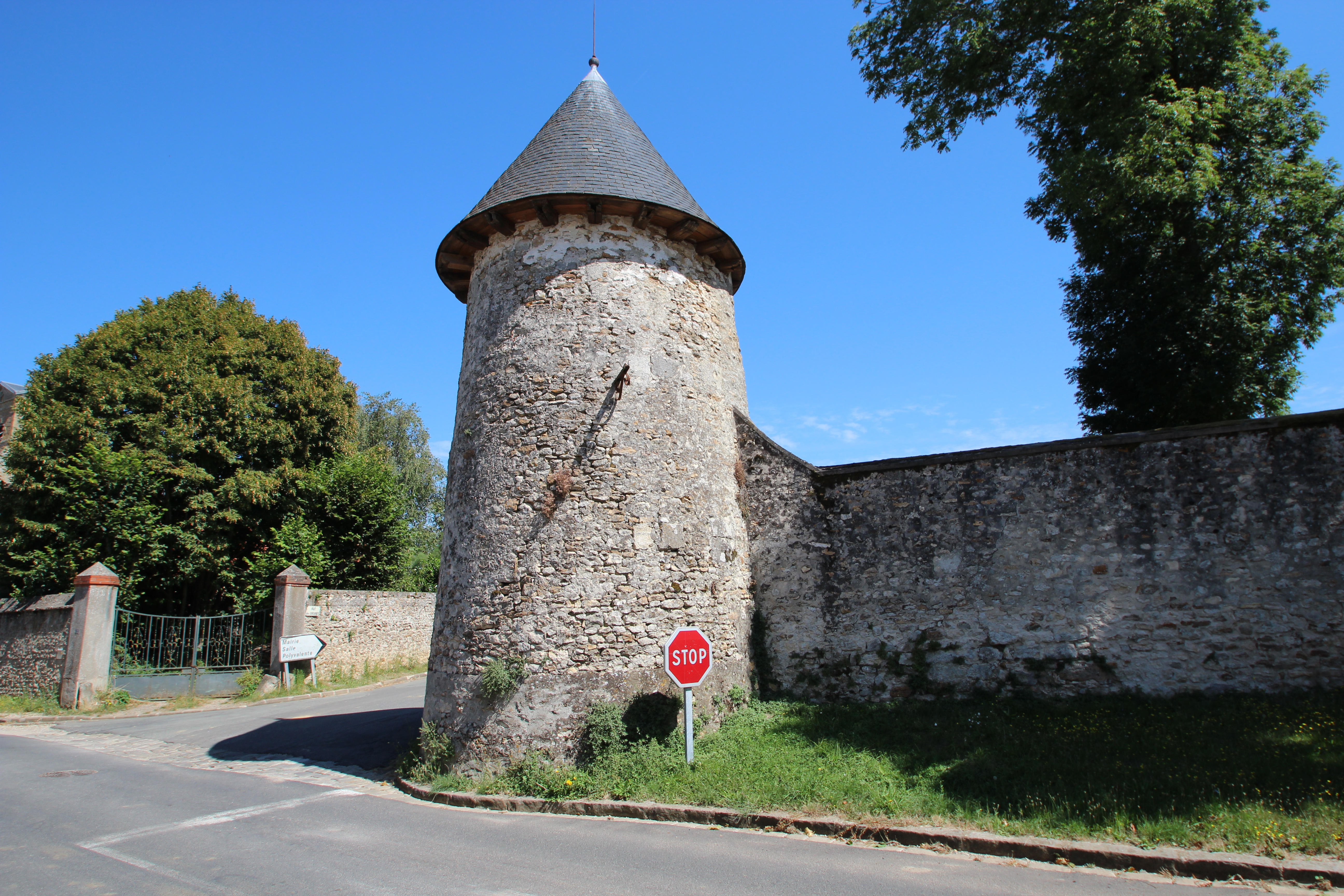 Castle of Boissy-le-Sec, France